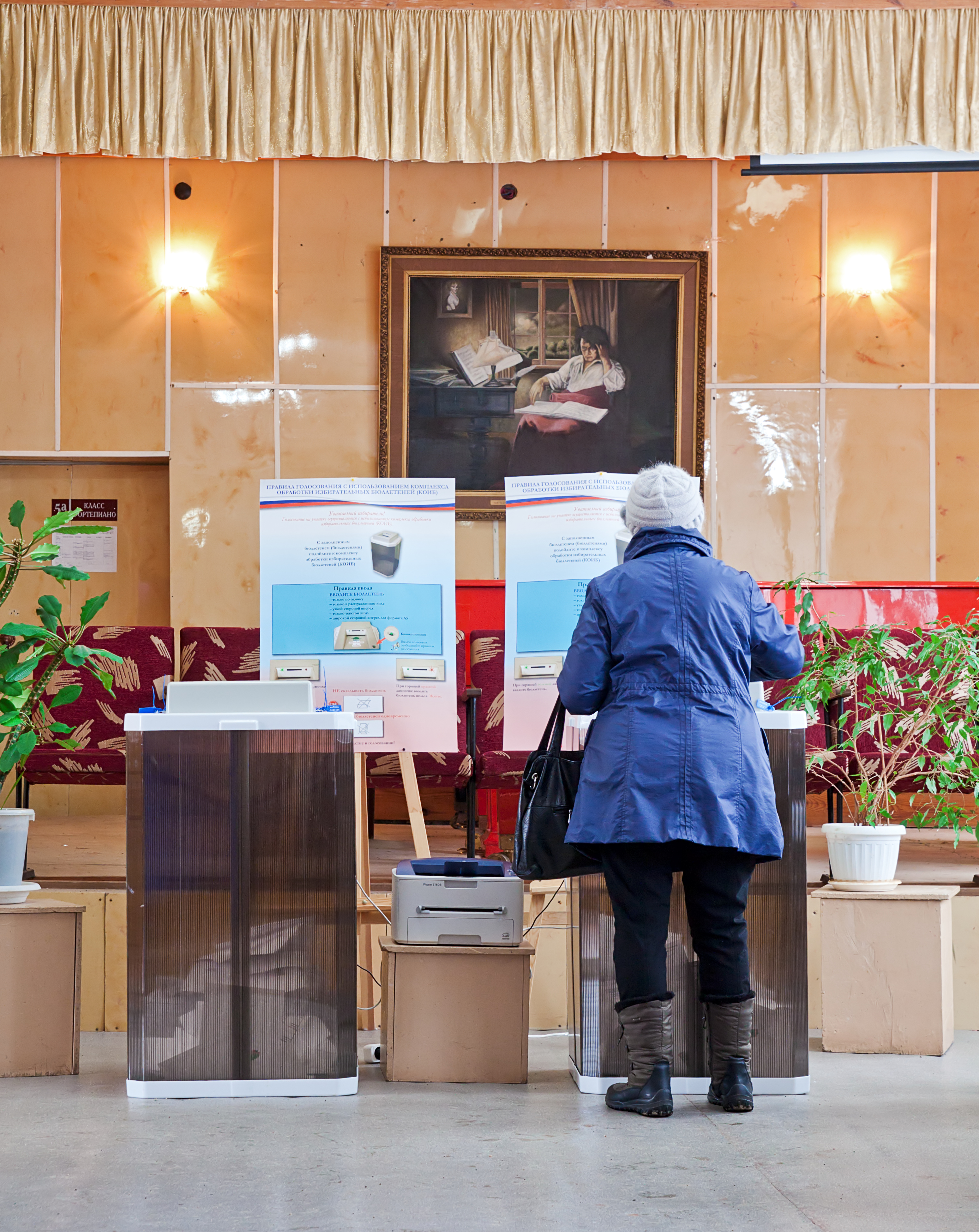 Presidential elections in 2012. Precinct №391 in music school in Pereslavl-Zalessky.